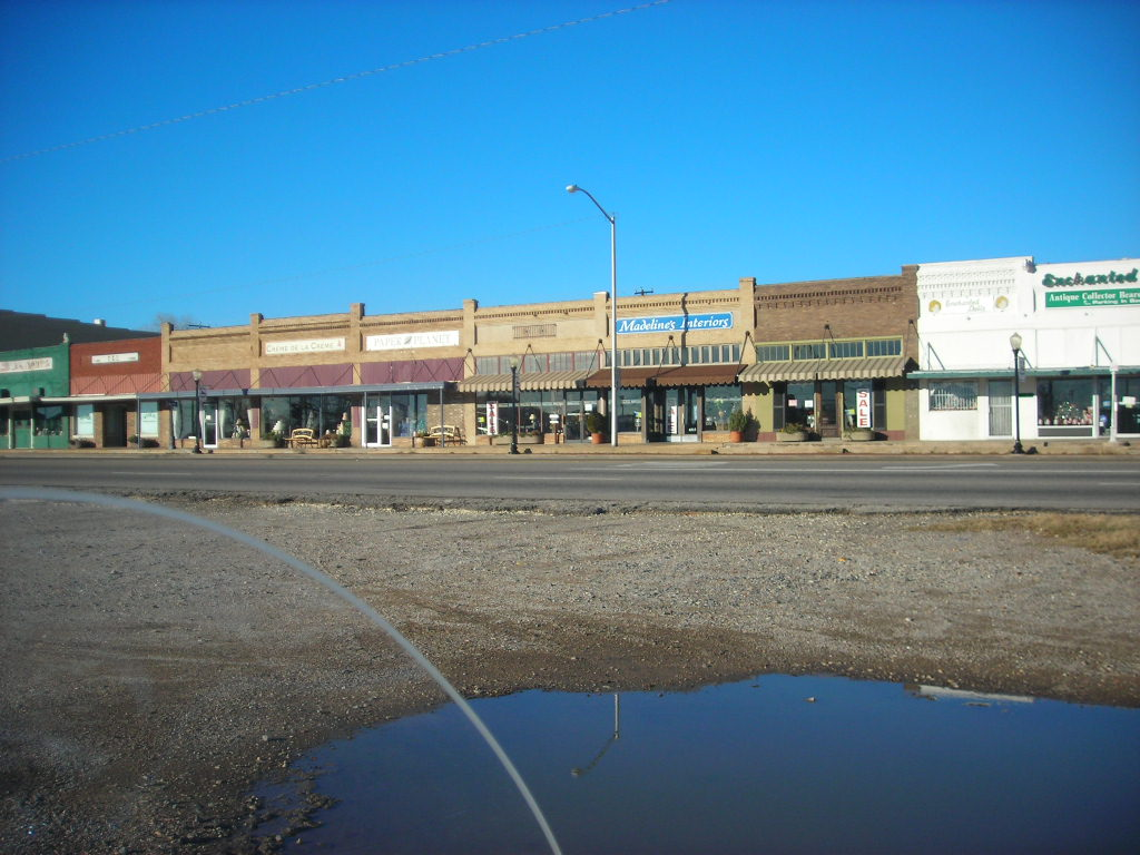 The remains of downtown Handley in far east Fort Worth, overlooking Lancaster Avenue (formerly US 80. Photo by Danny Burton, 01/01/07